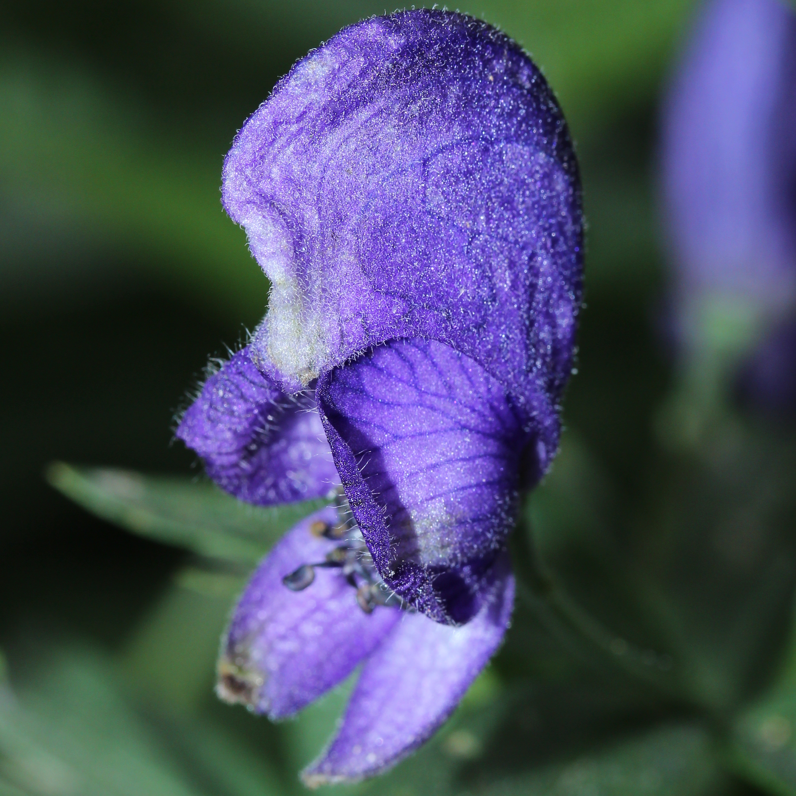 Aconitum firmum moravicum